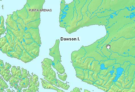 Dawson Island, municipality of Punta Arenas